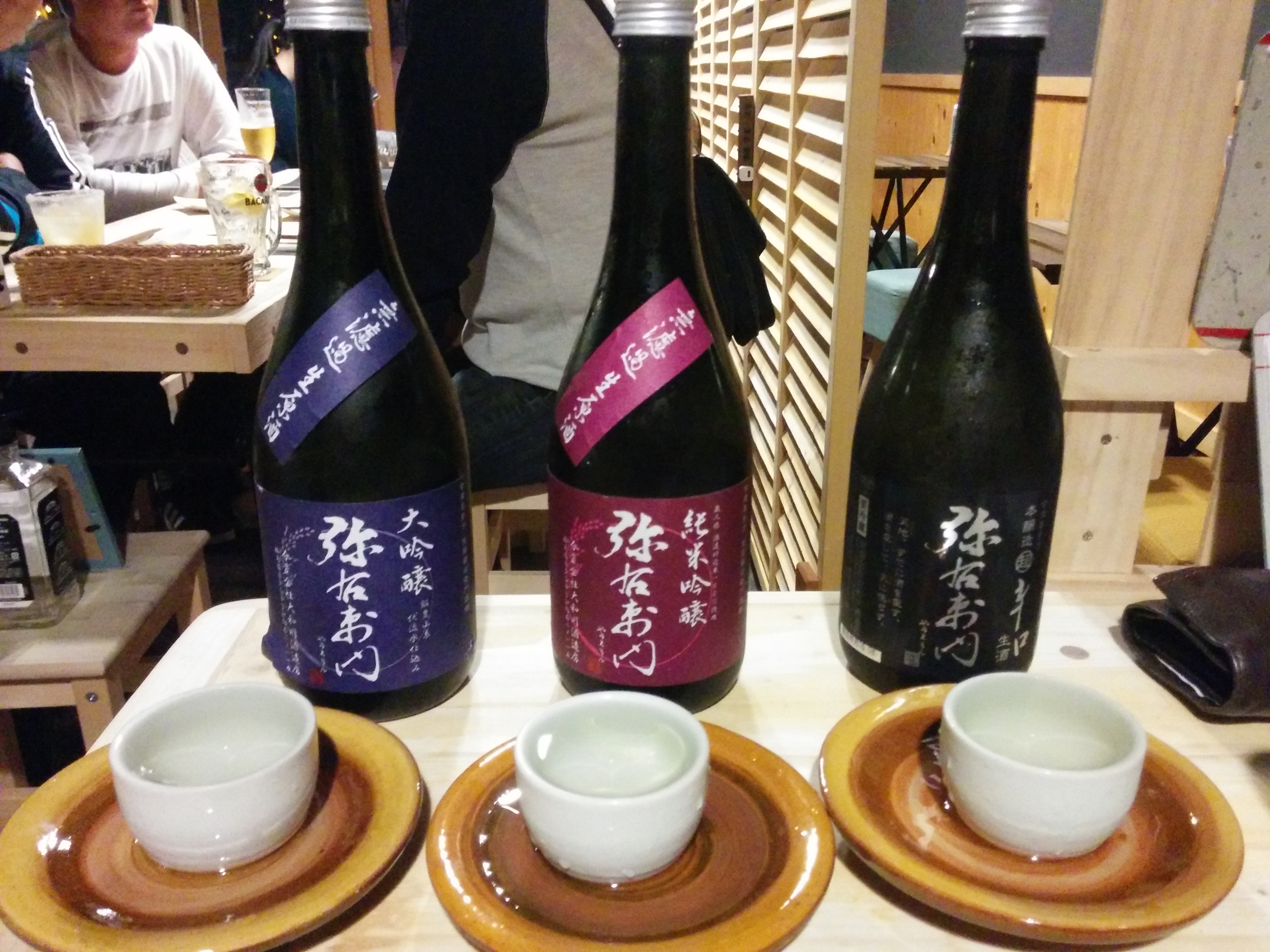 Sampling Aizu sake